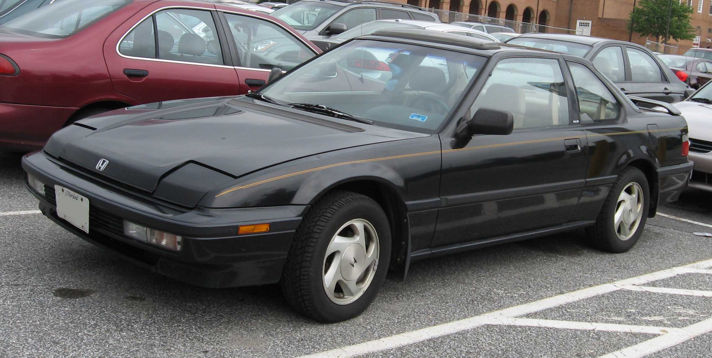 1990-1991 Honda Prelude photographed in USA.